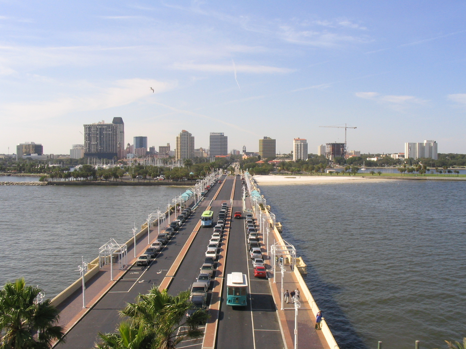 View of Downtown St Petersburg from the top of The Pier.